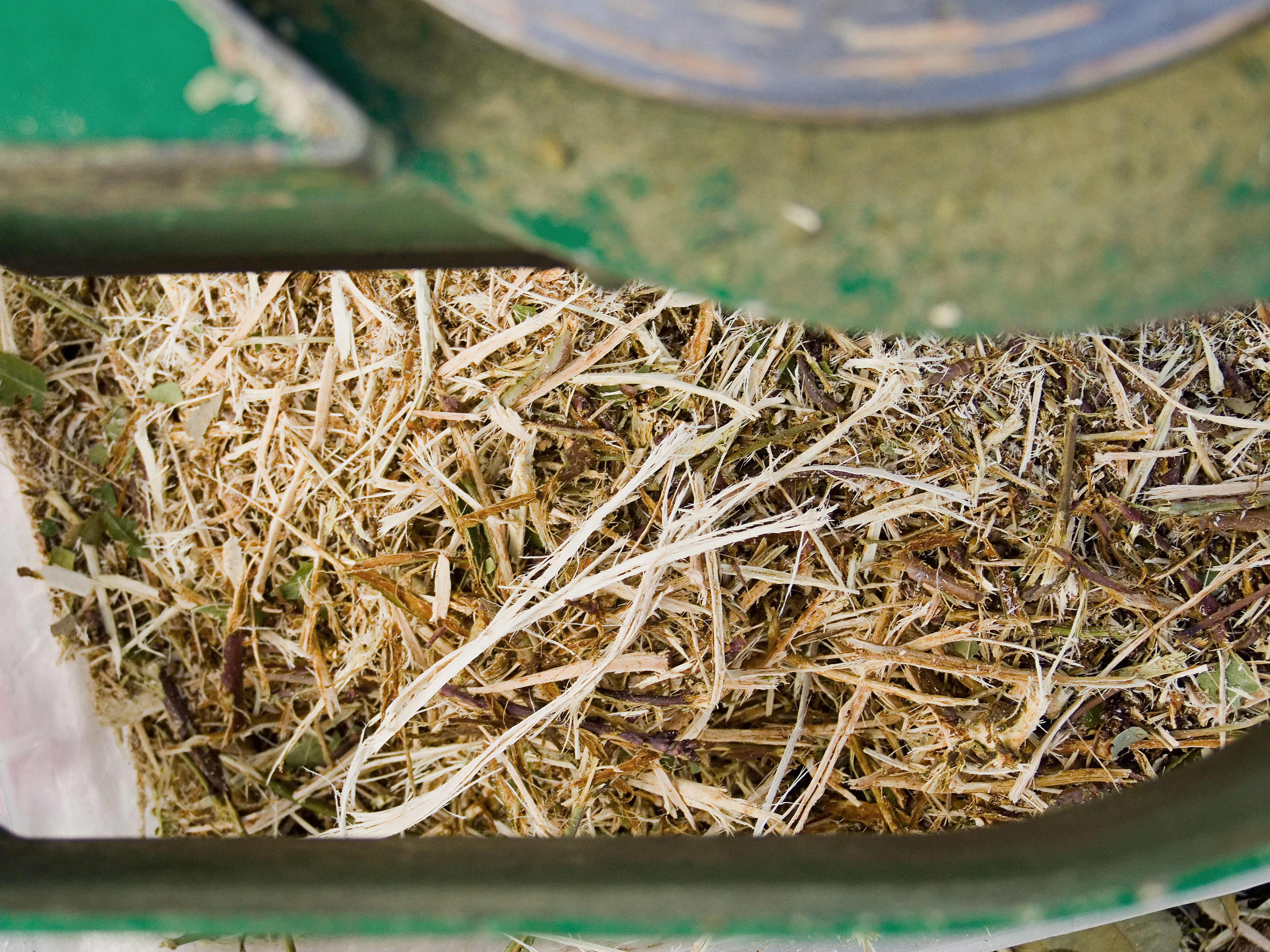 Resultant chippings from a garden mulcher.